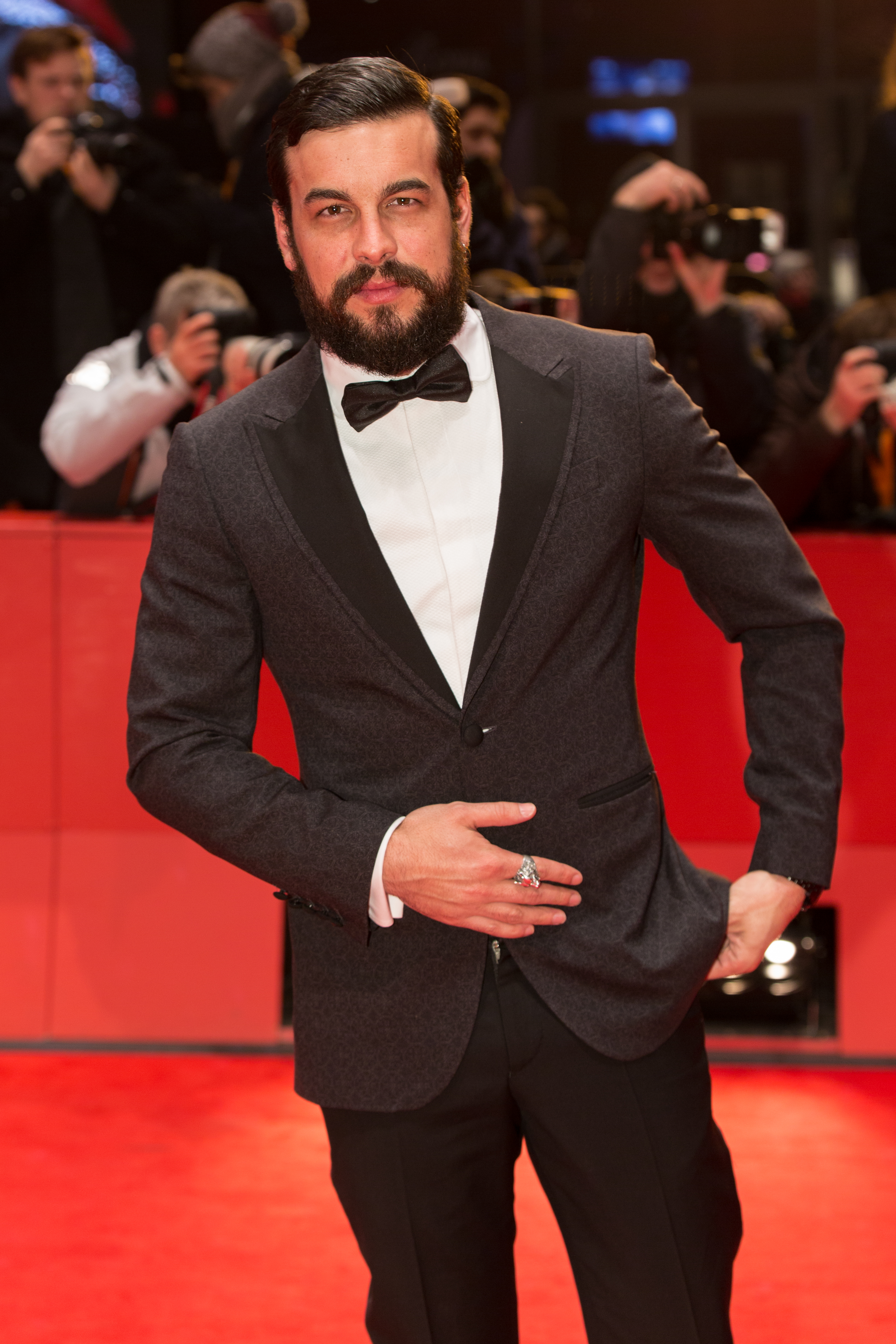 The actor Mario Casas presenting the movie The Bar at the Berlinale 2017